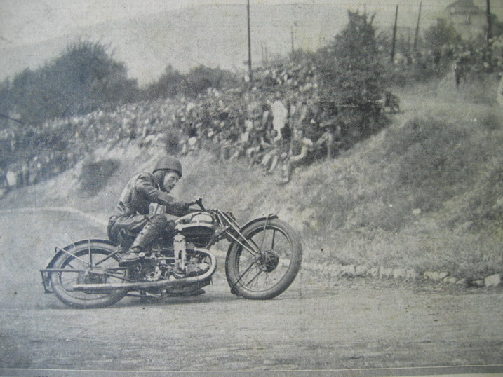 Kozma Endre